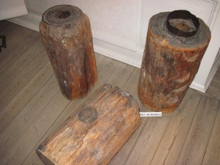 Wooden water pipe used in Copenhagen, Denmark